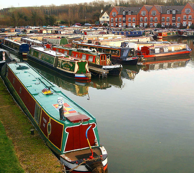 The canal marina at Braunston in Northamptonshire. Photo by G-Man Jan 2005. See here for An image of the canal at Braunston